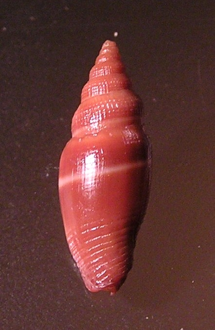 Vexillum funereum L. A. Reeve, 1844; a ribbed miter from the family Costellariidae; Philippines